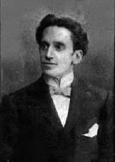 Vaudeville Entertainer Frank Lawton